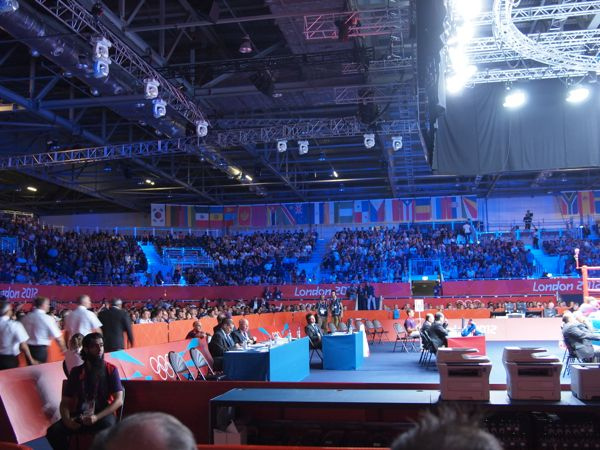 Inside of the boxing venue at the ExCeL London.